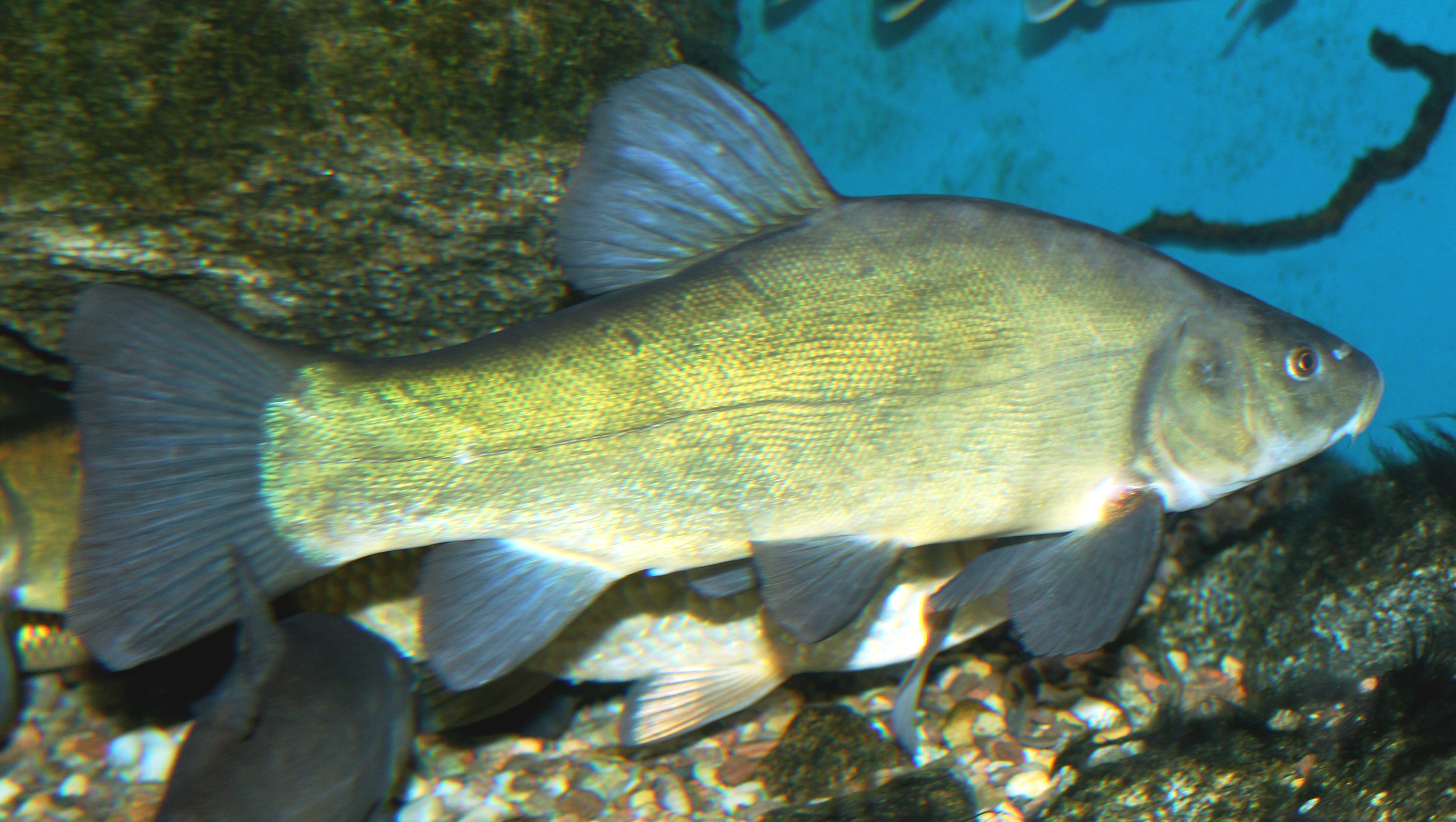 Fish Tench on exhibition Subaqueous Vltava, Prague 2011, Czech Republic